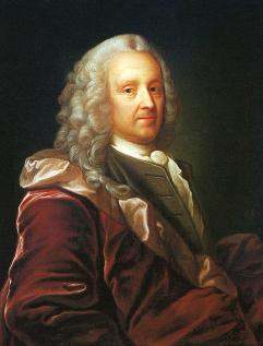 portrait of norwegian/danish author Ludvig Holberg (1684-1754), by danish painter Jørgen Roed (1808-1888); made 1847 ; owned by Nasjonalgalleriet